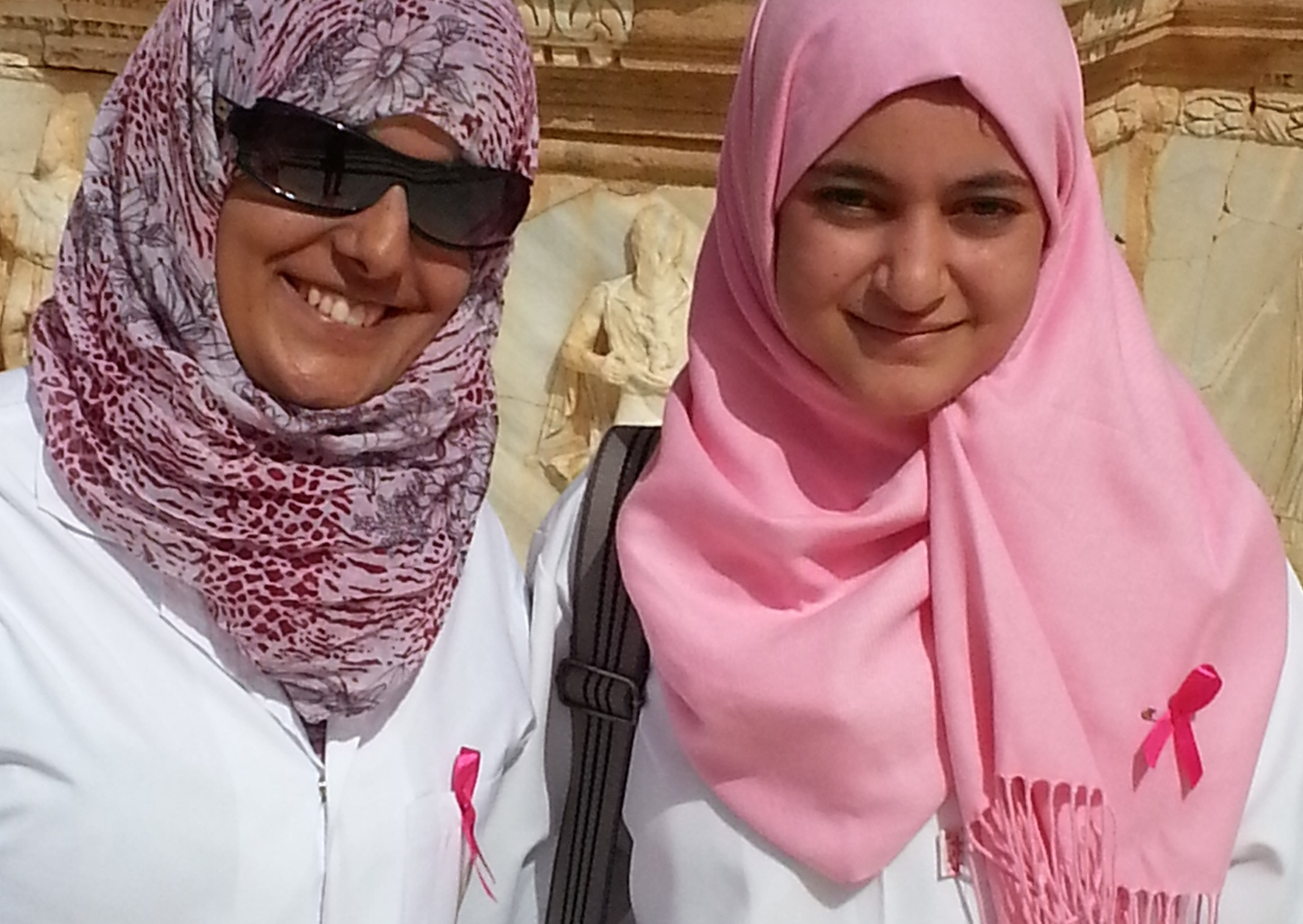 Two medical students are promoting breast cancer awareness by wearing pink ribbons and a pink hijab in Sabratha, Libya.